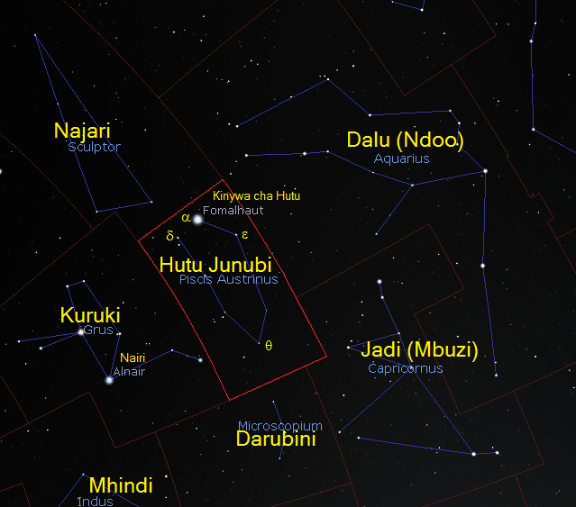 Constellation Piscis Austrinus as seen from Tanzania, Swahili labelled Kiswahili: Kundinyota Hutu Junubi (Piscis Austrinus) jinsi inavyoonekana kutoka Tanzania, majina kwa Kiswahili